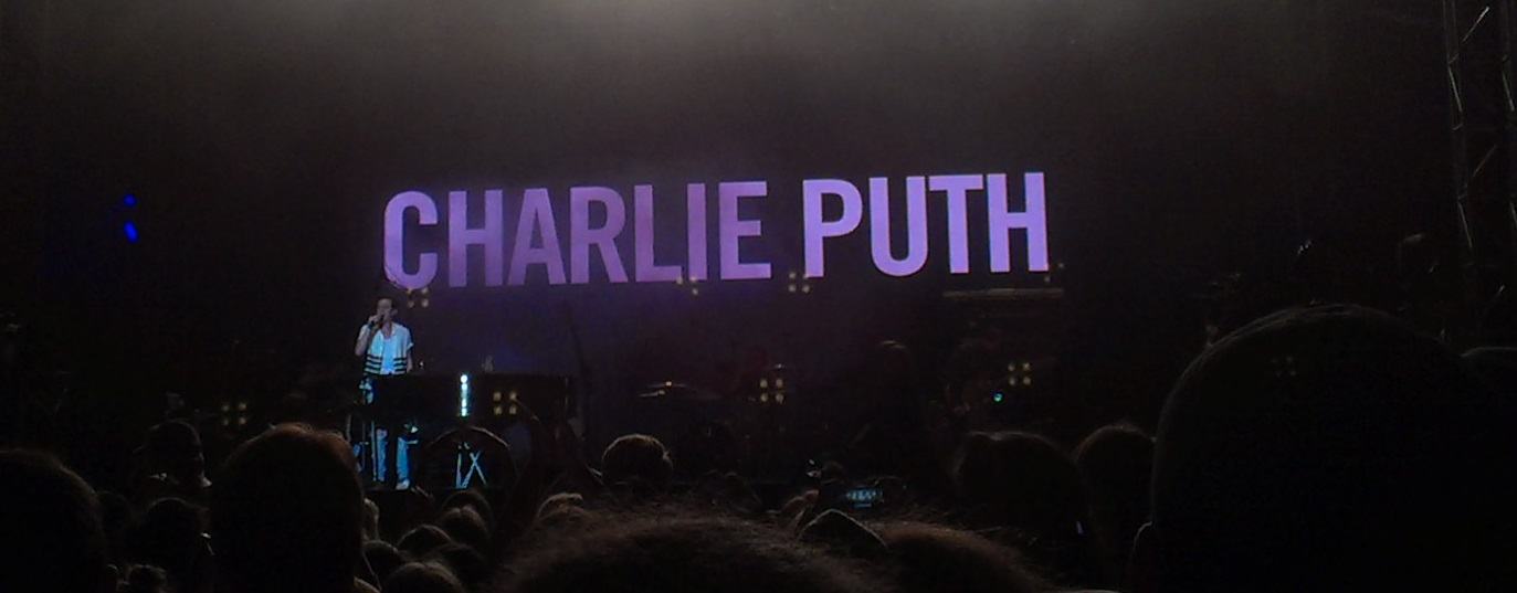 A concert of Charlie Puth photographed in St. Jean Sur Richelieu, Quebec, Canada during the first day of the 2015 St. Jean Sur Richelieu balloon festival.